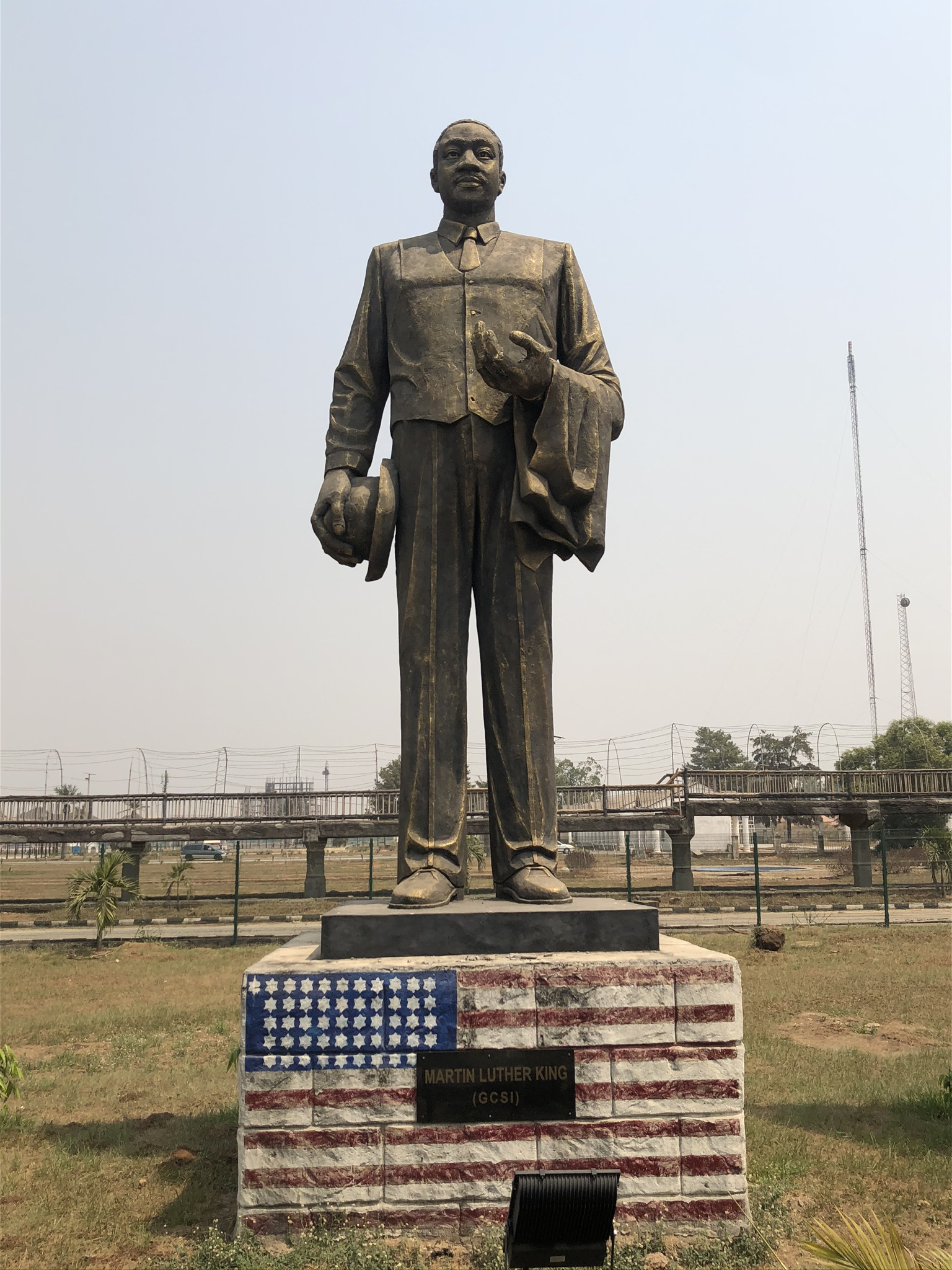 Statue Tourist attraction in Owerri Imo State